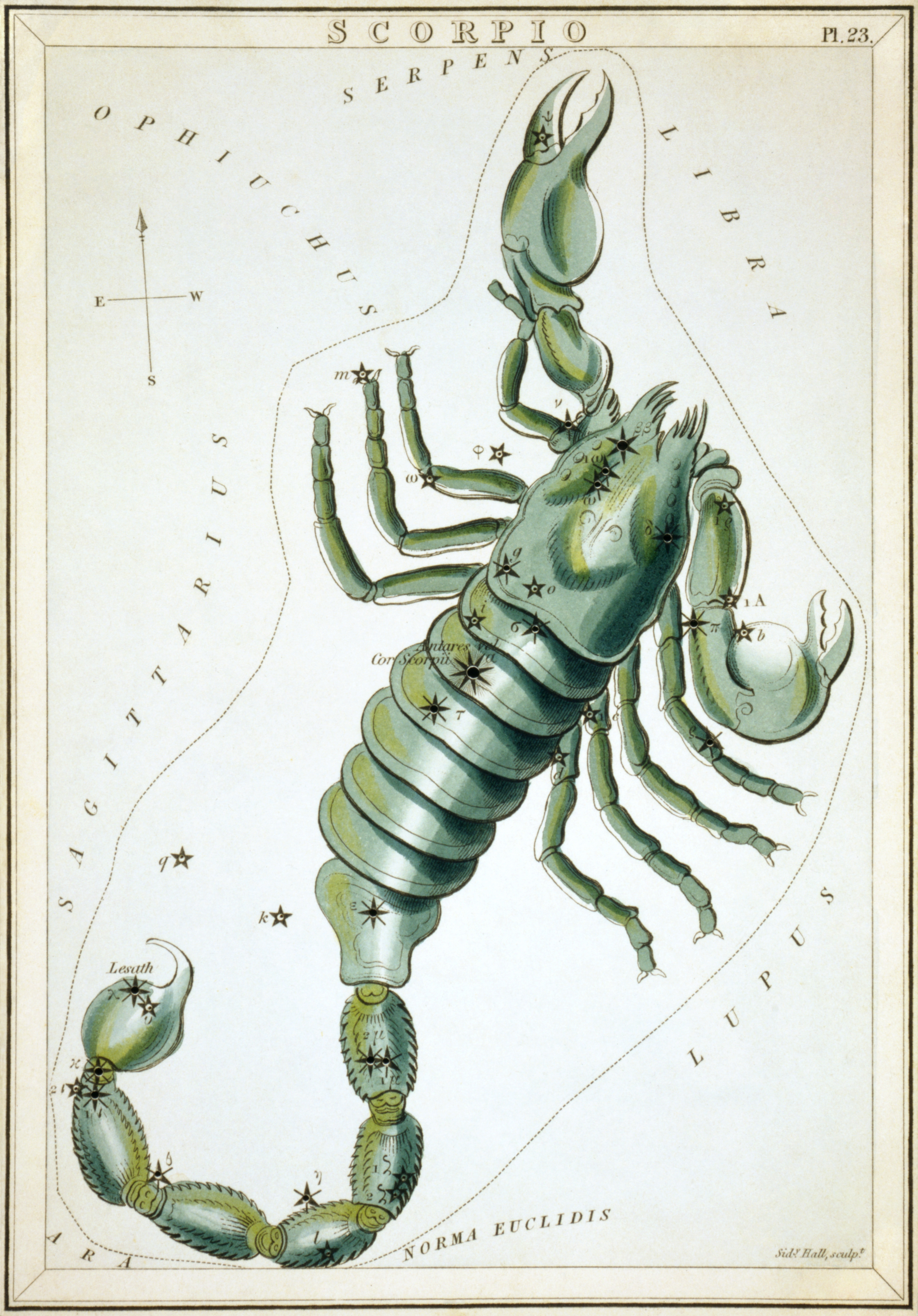 "Scorpio", plate 23 in Urania's Mirror, a set of celestial cards accompanied by A familiar treatise on astronomy ... by Jehoshaphat Aspin. London. Astronomical chart, 1 print on layered paper board : etching, hand-colored.